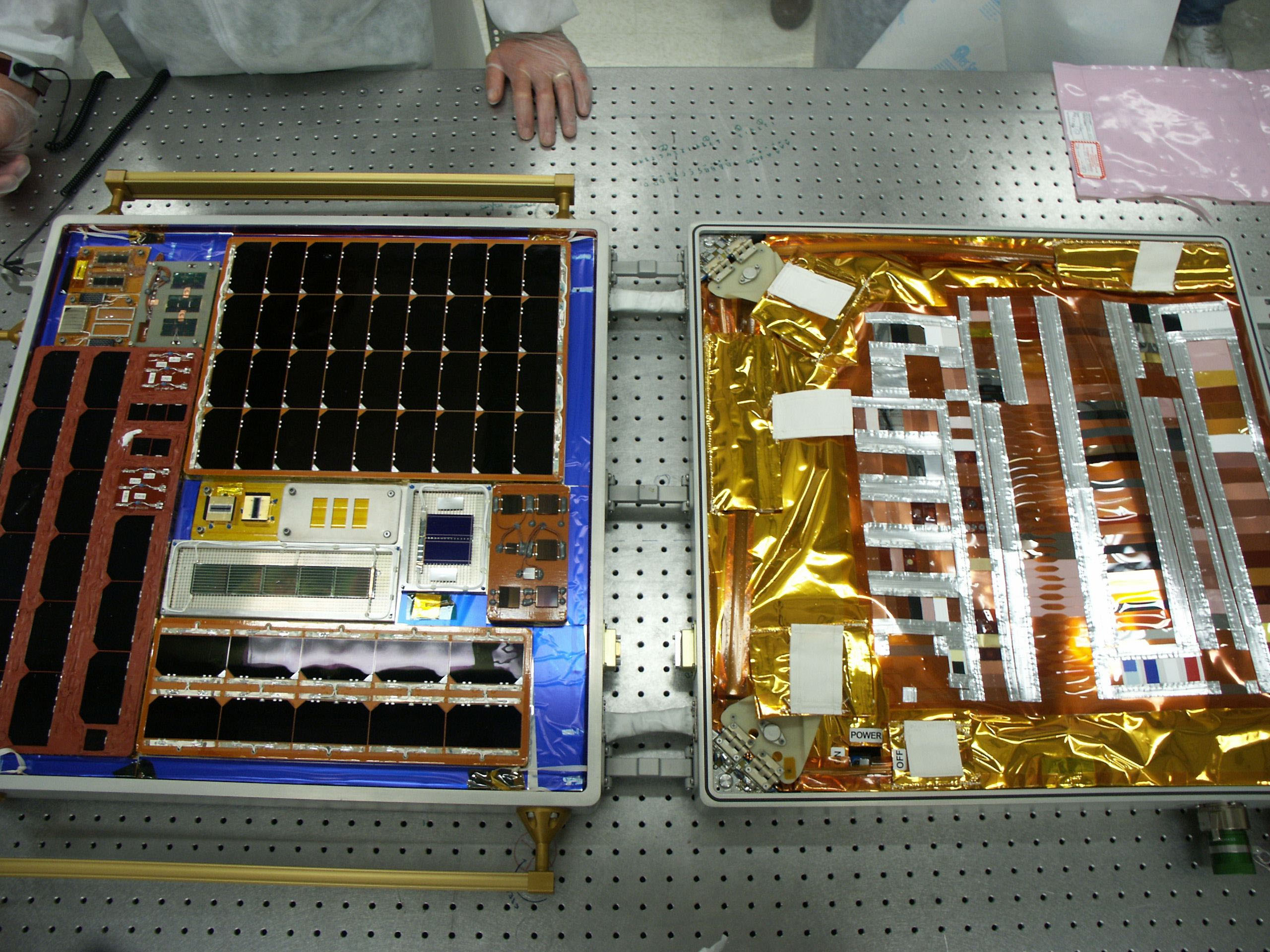 MISSE-5 samples prior to launch to the International Space Station for deployment during Increment 11. On the left side you see the Forward Technology Solar Cell Experiment (FTSCE) on the right side PcSat-2 covered and protected by a golden thermal blanket with 200 flexible material samples attached.